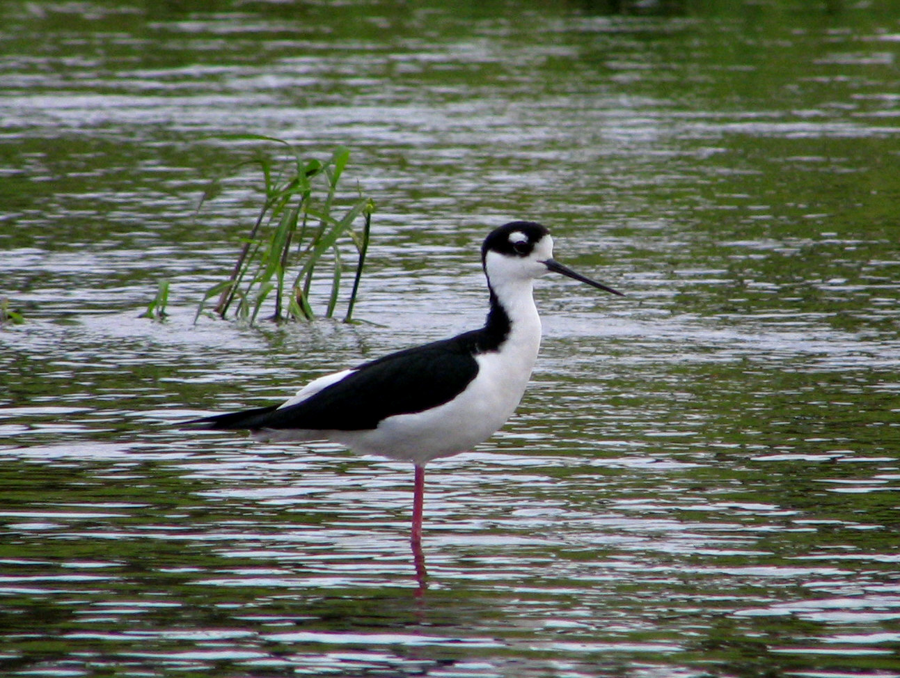 Black-necked Stilt - Myakka River State Park. Taken by User:Mwanner, 13 February, 2007.